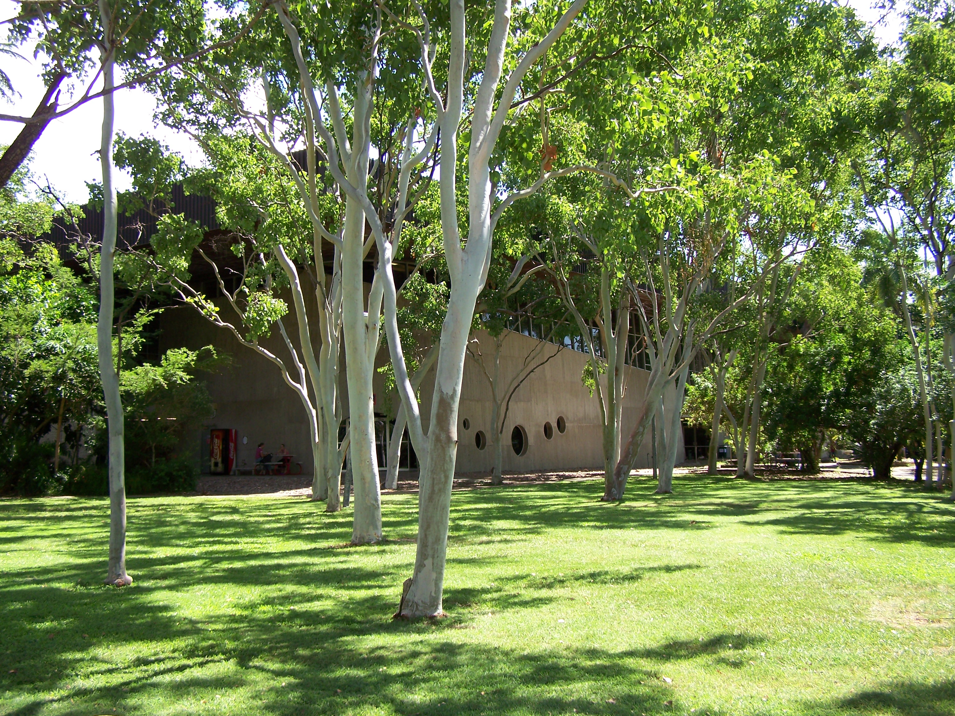 View of the library at the Douglas Campus.